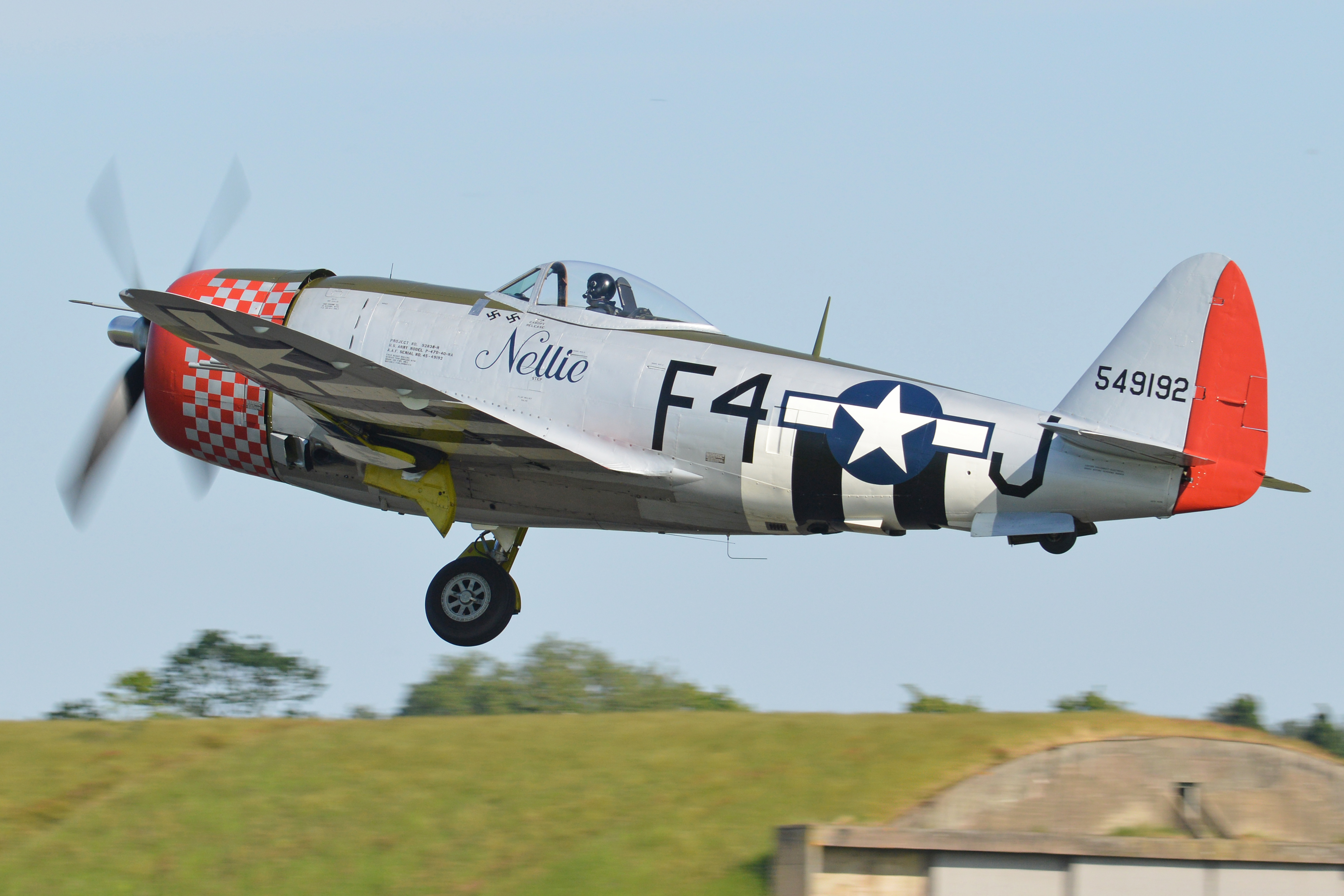 Making a welcome return to the UK, ‘Nellie’ was previously known to UK enthusiasts as ‘No Guts, No Glory’ and was part of the Duxford based Fighter Collection. She is now operated by Air Leasing at Sywell and after her arrival earlier in 2018 she was quickly repainted in a 492nd Fighter Squadron scheme. The 492nd currently operates the F-15E Eagle from RAF Lakenheath, so it is a locally appropriate scheme for the returning warbird to have. Two separate P-47 restorations have used parts from P-47D ’45-49192’ (c/n 399-55731) which crashed on take-off back in 1980 when registered as N47DD. Both airframes now claim that identity and both are resident in the UK! The other being on permanent display in the American Air Museum at Duxford. Whatever her heritage, it’s great to see her again and she looks gorgeous as she departs from the 2018 Cosford Airshow. RAF Cosford, Shropshire, UK. 10th June 2018